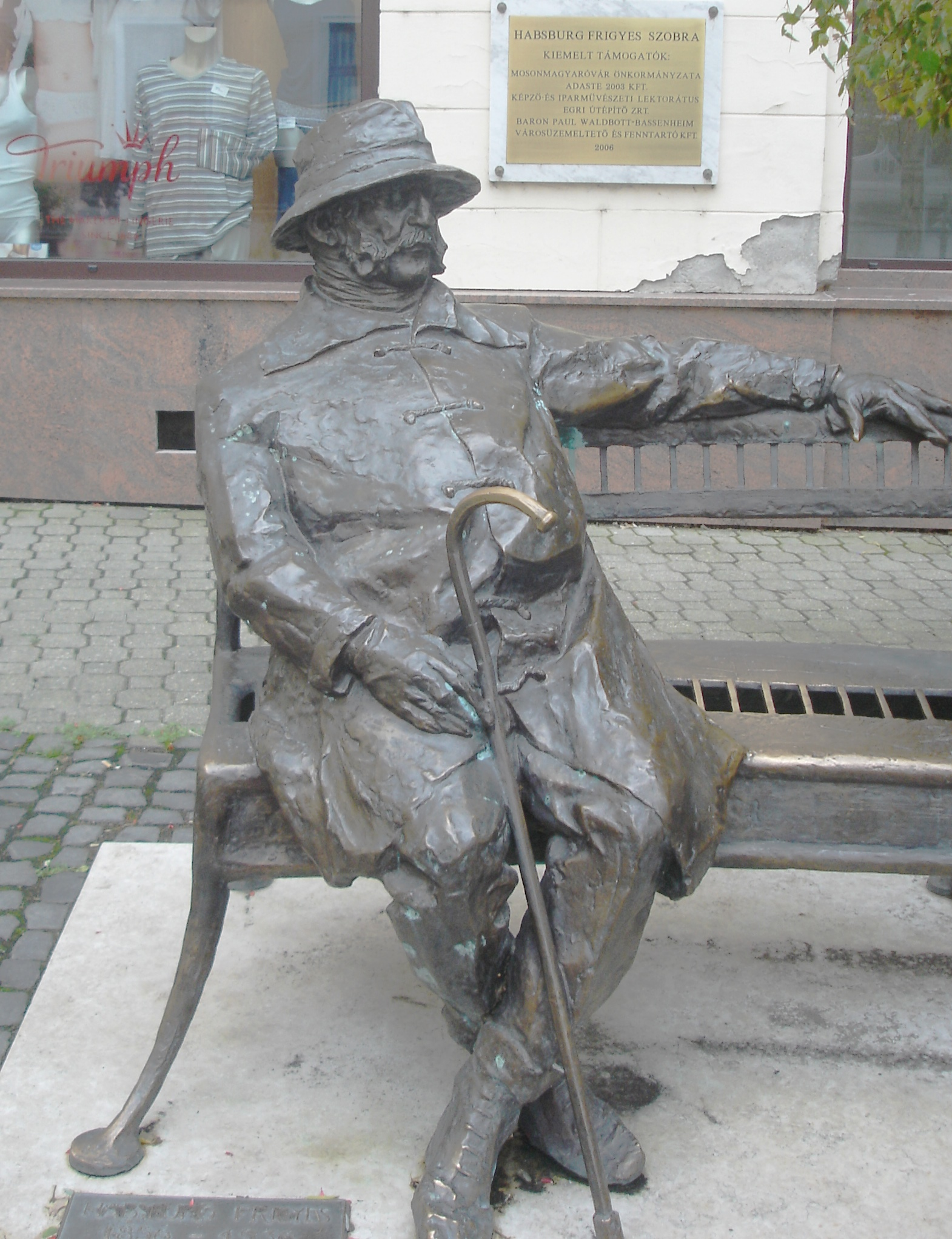 Monument to Frederic Habsburg, Mosonmagyaróvár Habsburg Frigyes főherceg / 1856-1936 / szobra (Paulikovics Iván, 2006) - Mosonmagyaróvár, Deák Ferenc tér